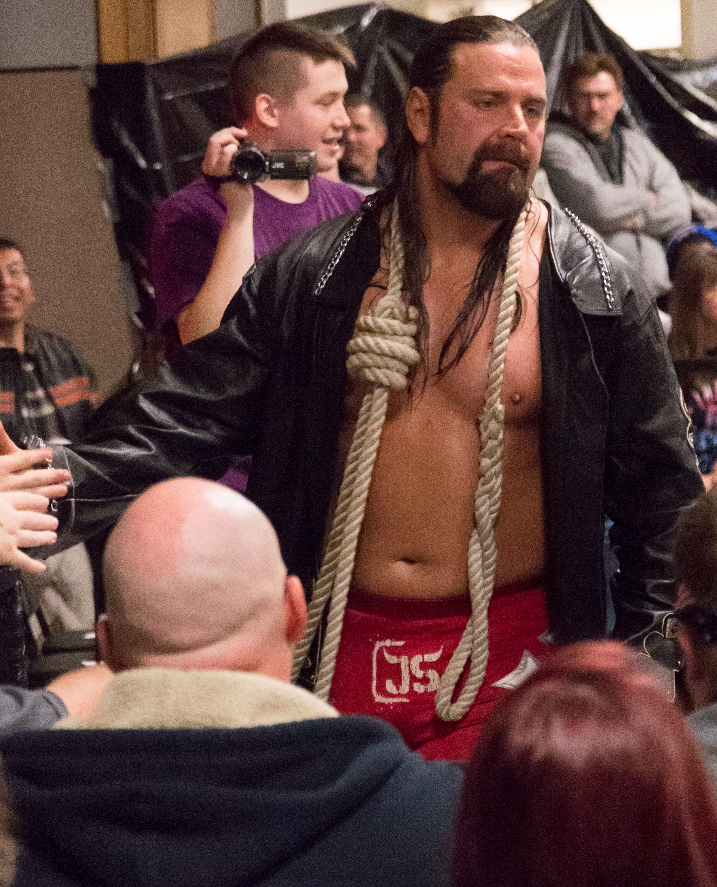 Independent wrestler James Storm making his ring entrance at an Empire State Wrestling event in Buffalo, NY